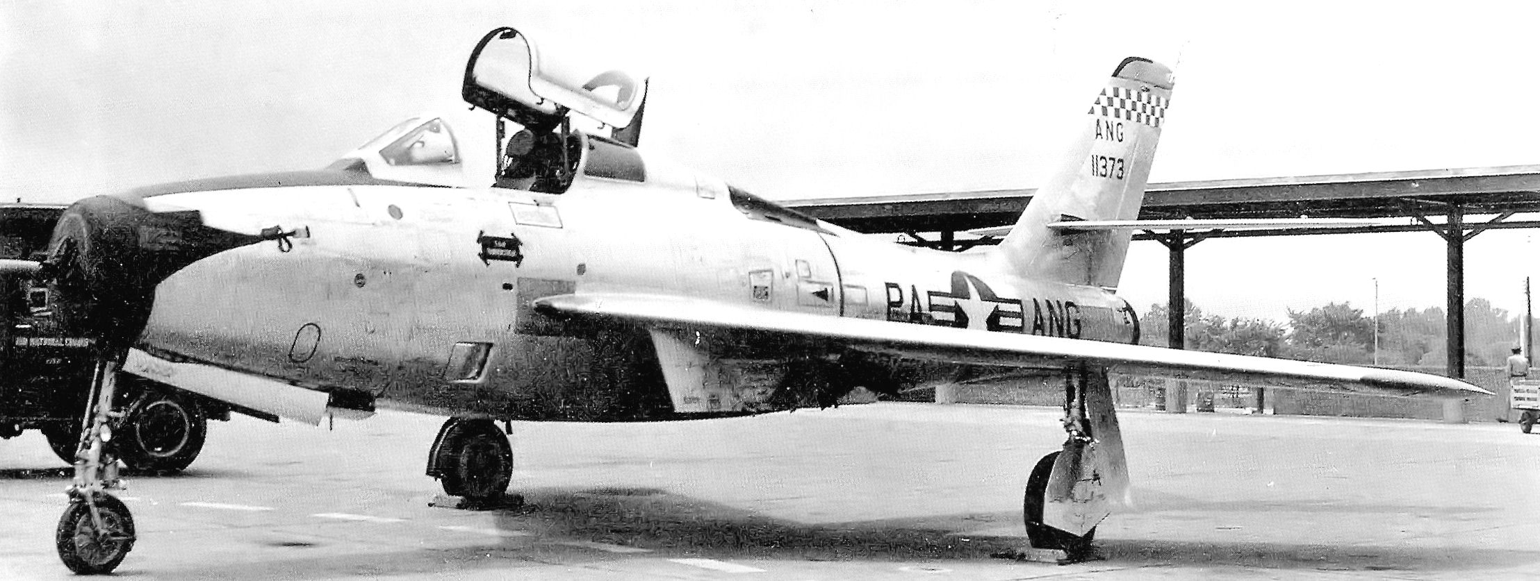 103d Fighter-Interceptor Squadron Republic F-84F-5-RE Thunderstreak 51-1356, Philadelphia International Airport, PA, 1955. Aircraft sent to to MASDC Nov 1958.